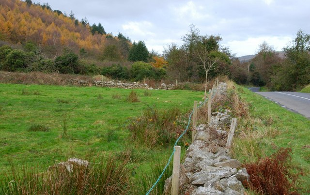 Cornamucklagh near Omeath The countryside above Omeath is a mixture of rougher pasture and forest. The back road from Carlingford to Omeath is on the right. The view is down towards the Omeath – Newry road.